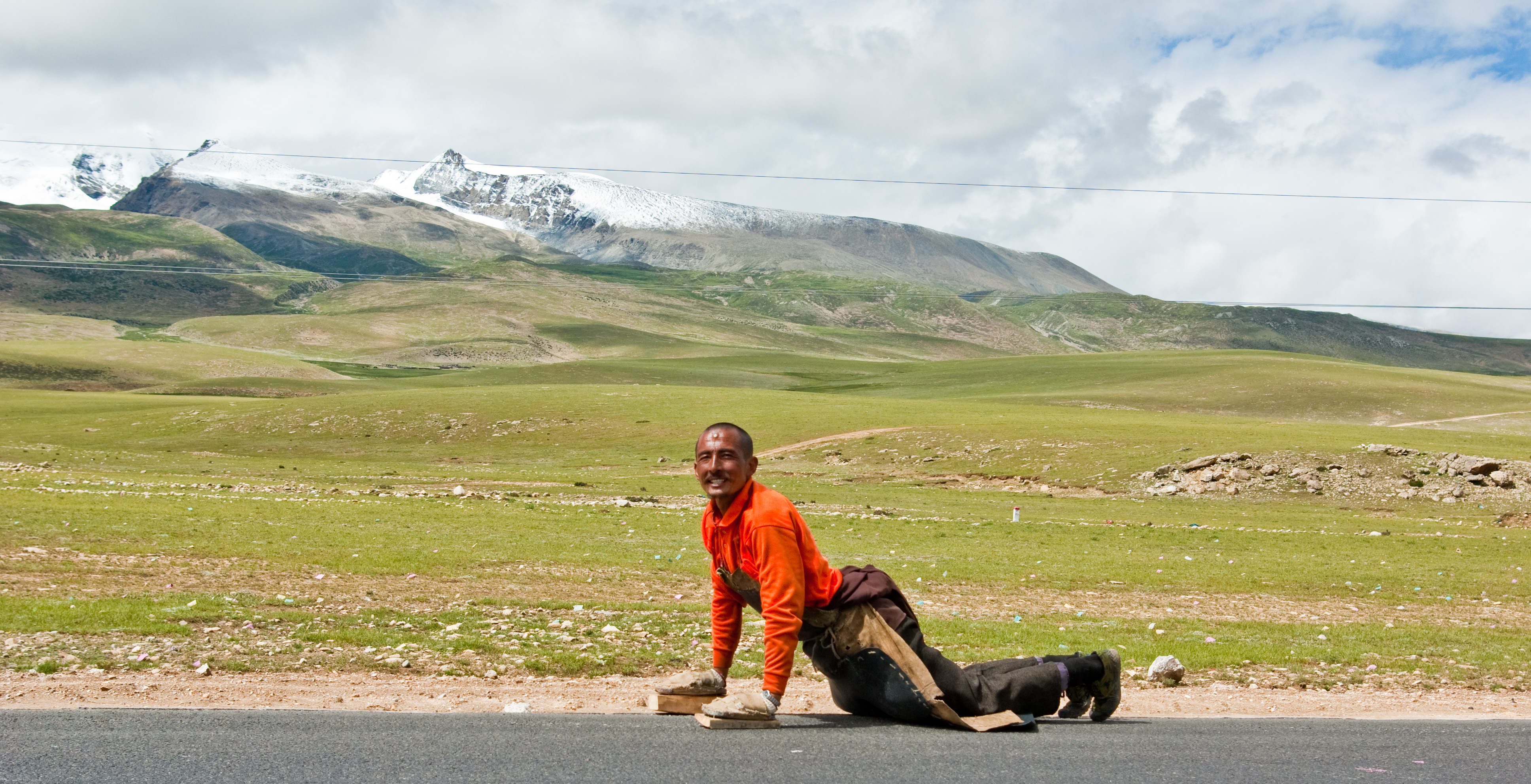 Pilgrim in Tibet (in Nagqu Prefecture)